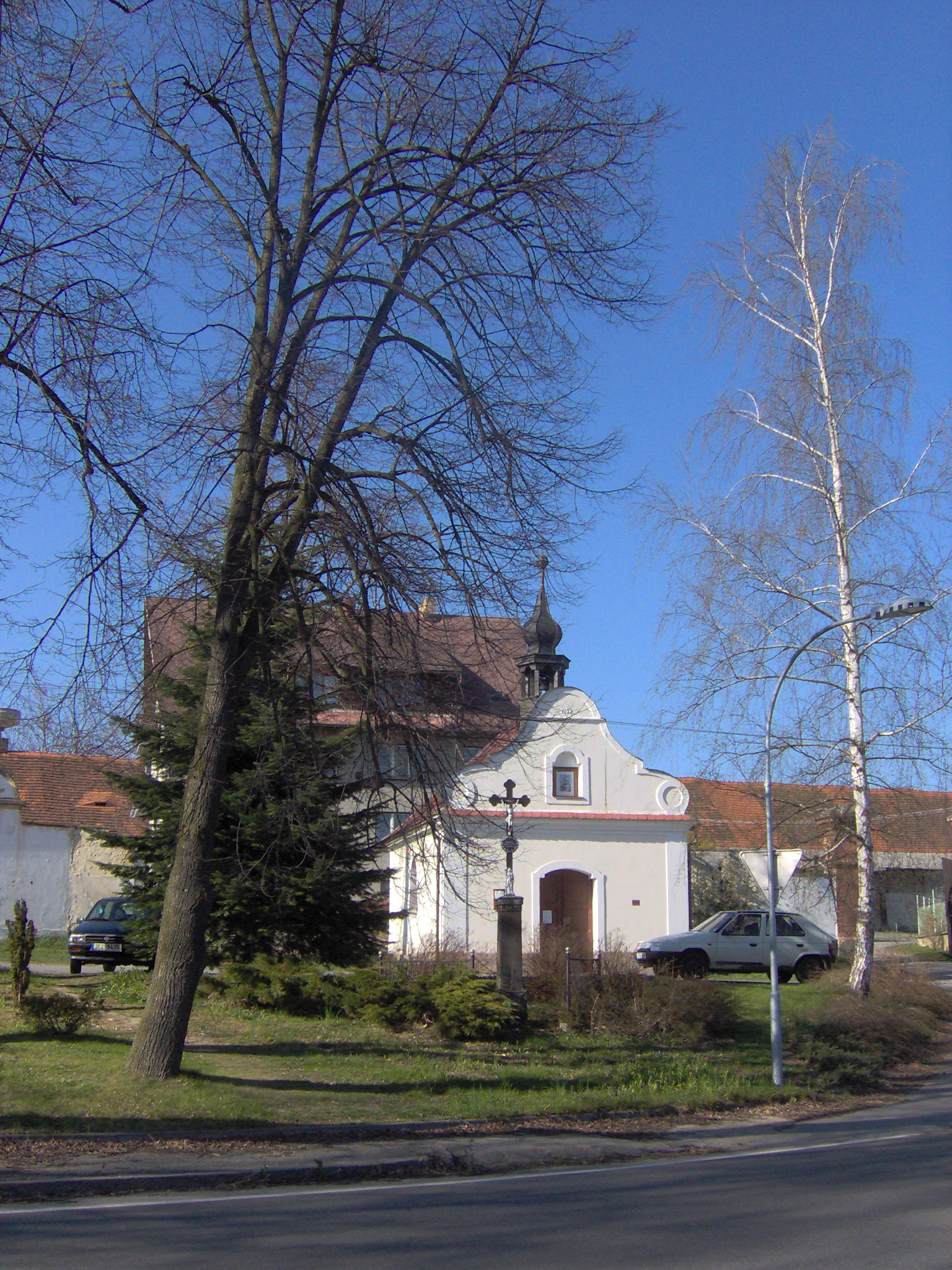 Chapel in Němětice, Strakonice District, Czech republic